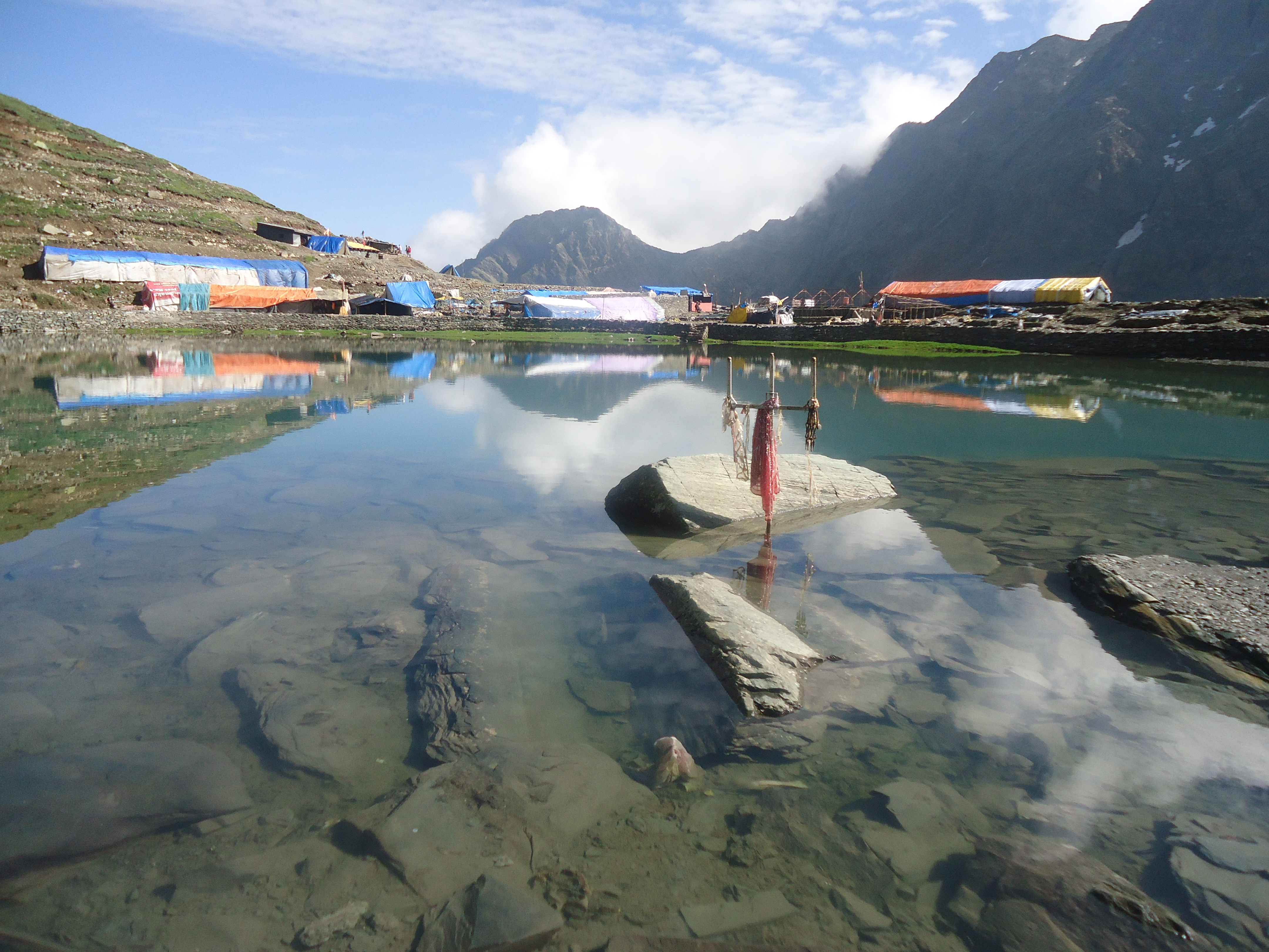 An insight of manimahesh lake